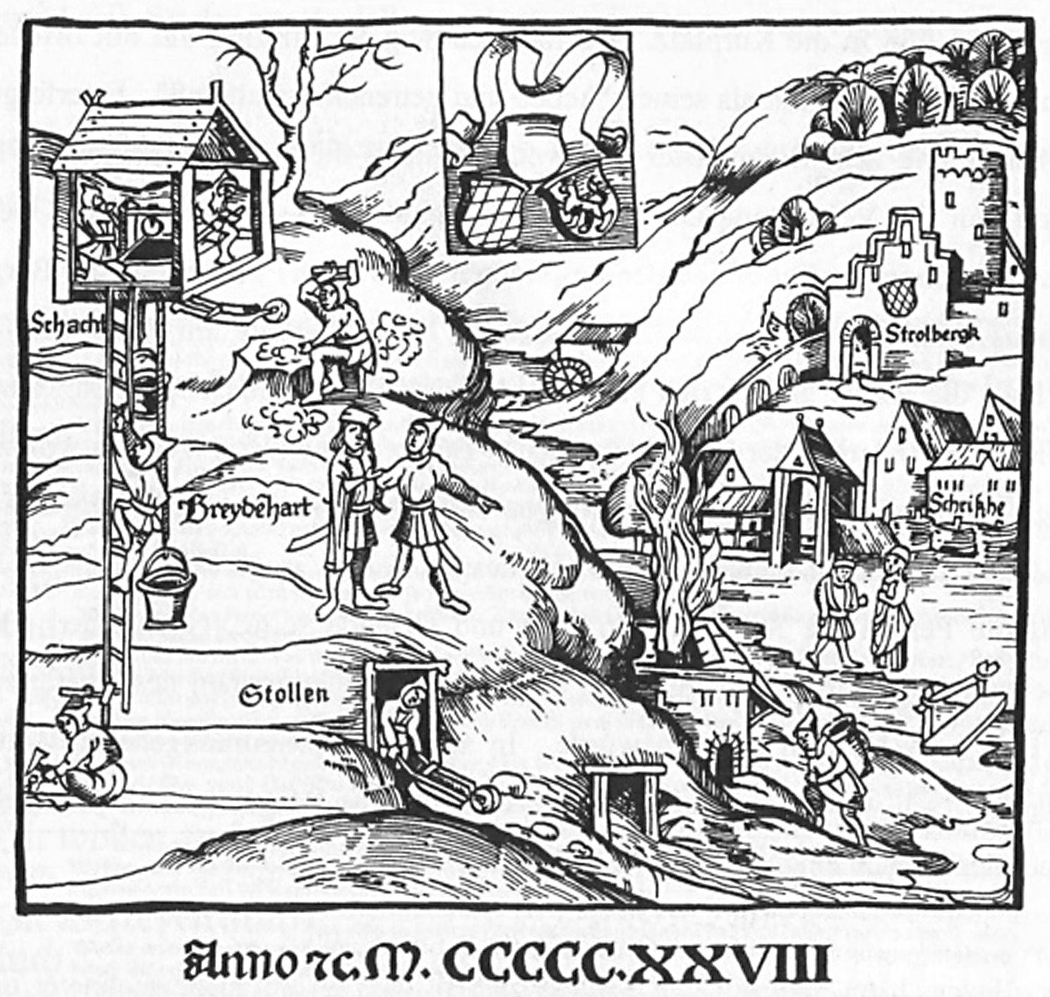 Mine Anna-Elisabeth in Schriesheim 1528